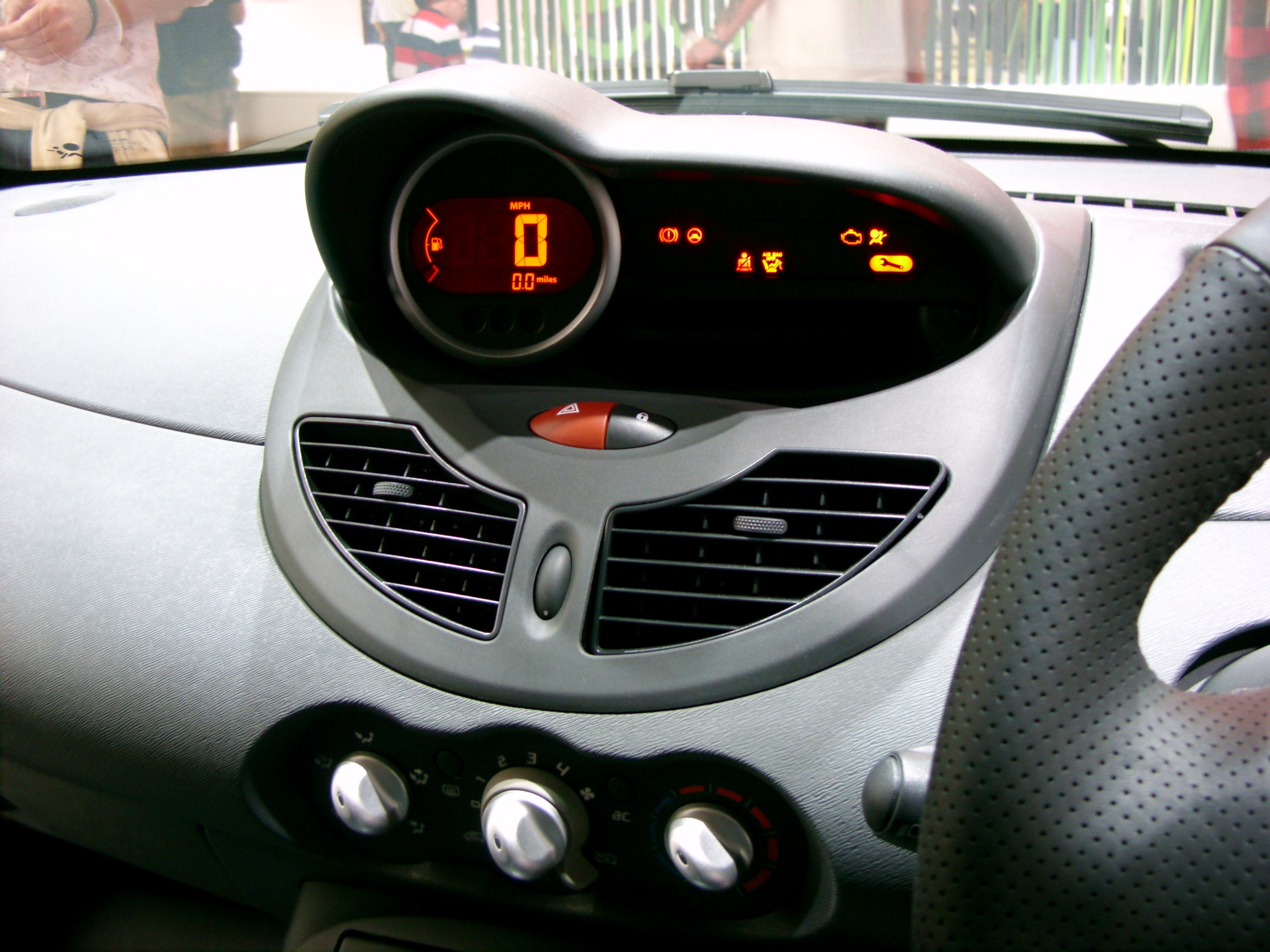 Renault Twingo Interior